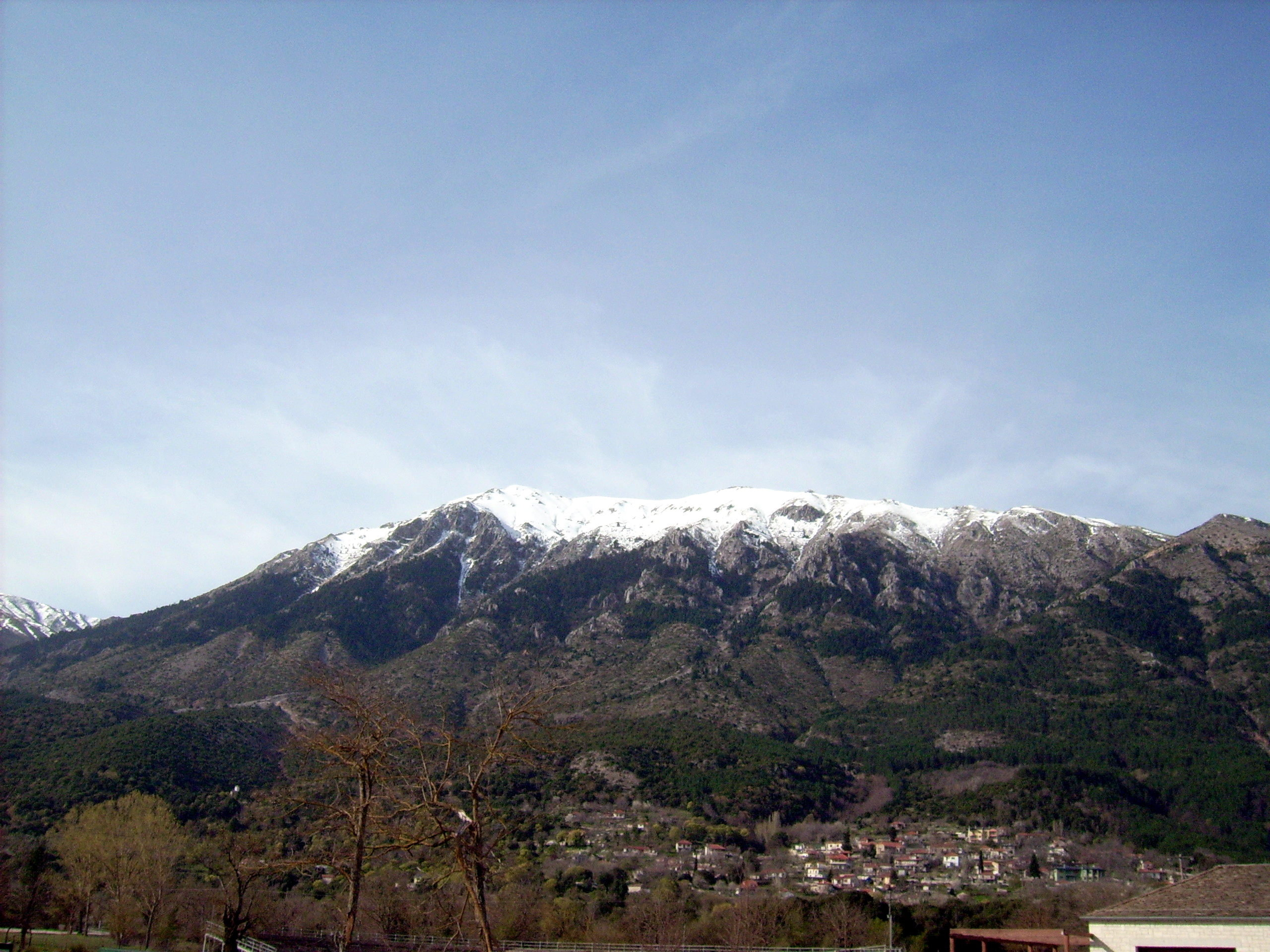 Oracle of Zeus at Dodona - View on Tomaros mountain